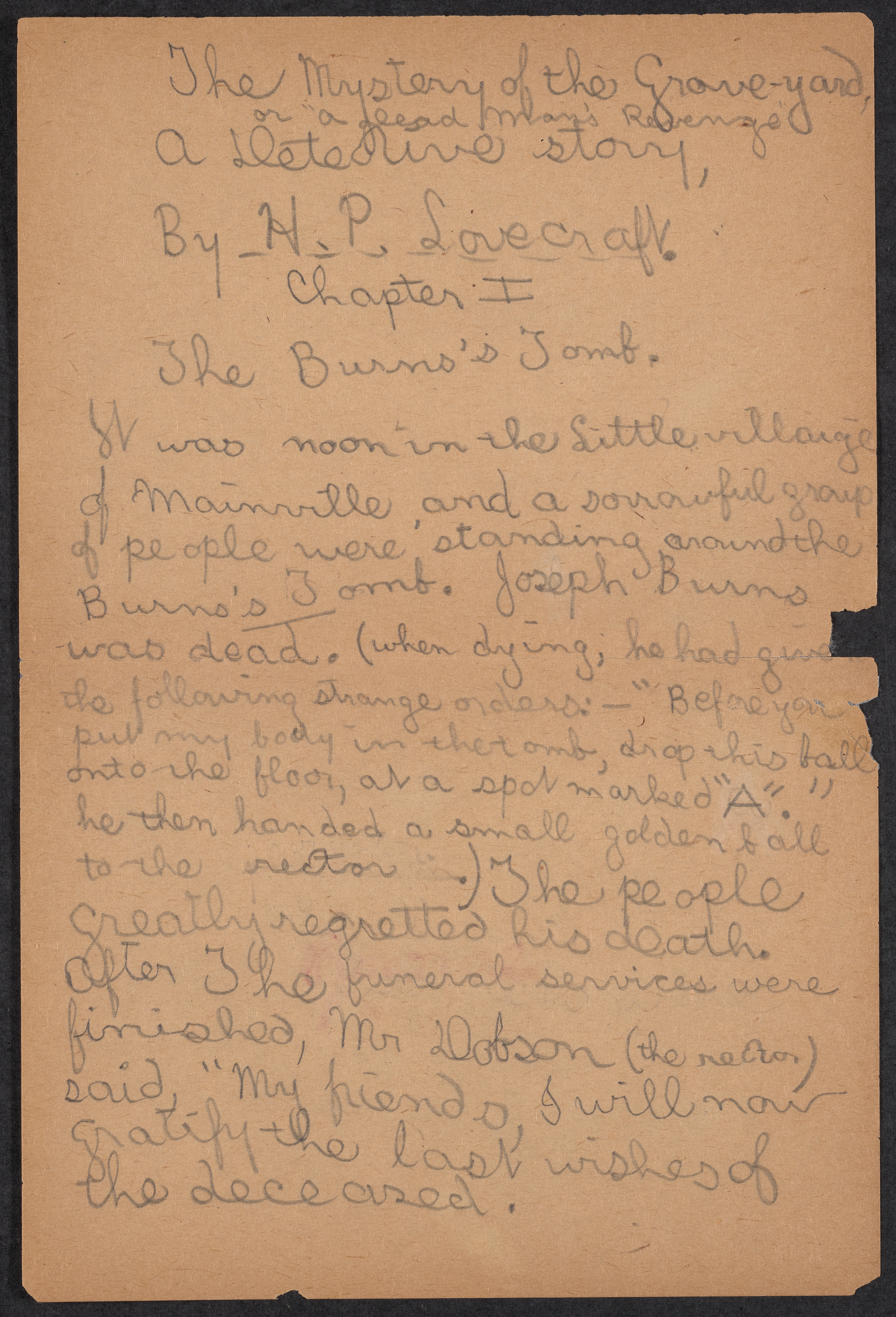 First page of the manuscript The Mystery of the Grave-Yard.